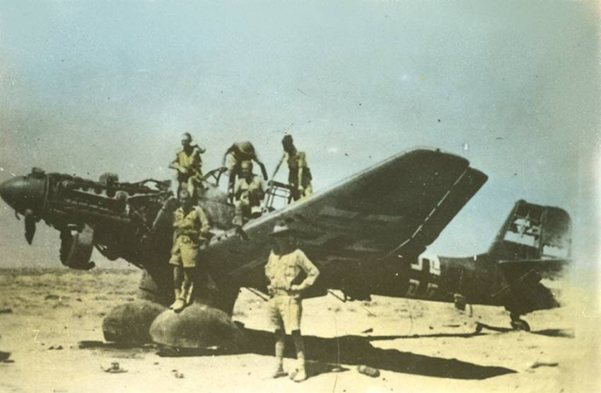 Australian soldiers on an wrecked German Junkers Ju 87B Stuka dive bomber in Libya.